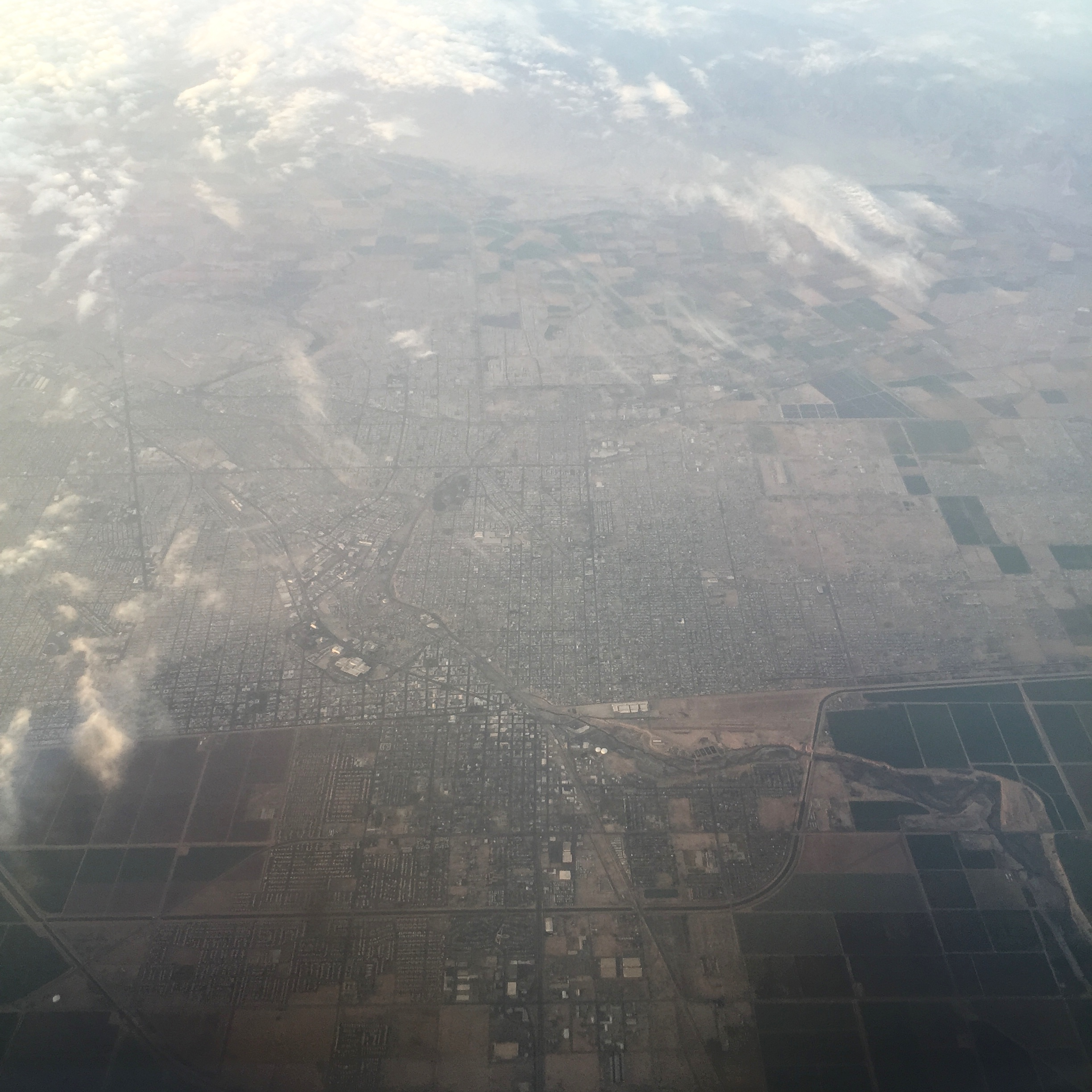 The Calexico-Mexicali region, with the US-Mexico border in-between. South is up - Mexicali, Sonora is on top, Calexico, California on bottom.